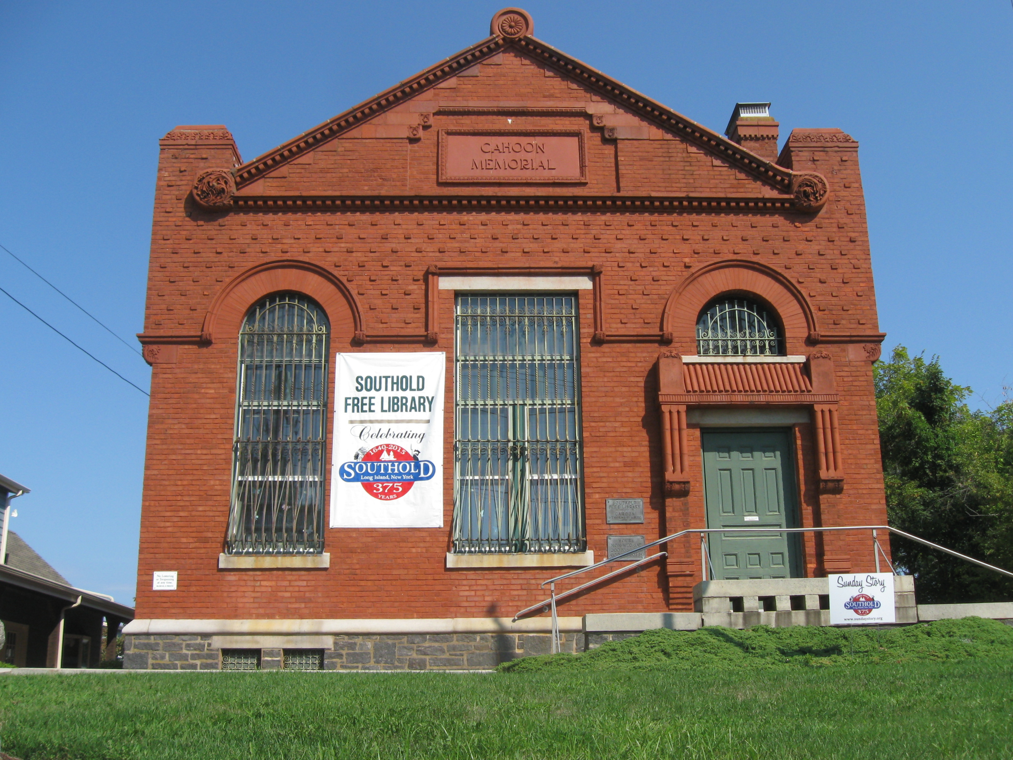 Southold Free Library facade as viewed from Main Street